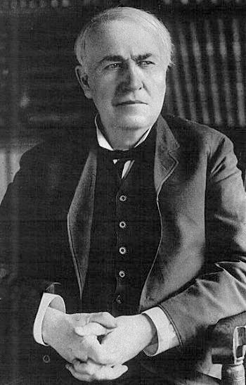 Thomas Alva Edison